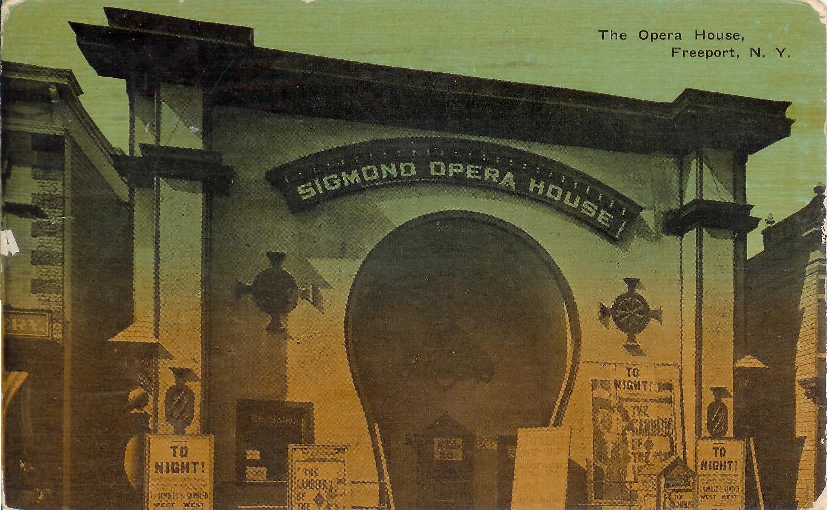 Postcard of the Sigmond Opera House, Freeport, Long Island, New York, c. 1913. The theater, on the west side of South Main Street in Freeport, was built by real estate developer Charles Sigmond. It first featured vaudeville shows and later movies. In this film, The Gambler of the West was the current feature. According to the 1912 phone book, it stood at 70 South Main. This was later the address of the American Theater (probably the same building), which burned in January 1924.